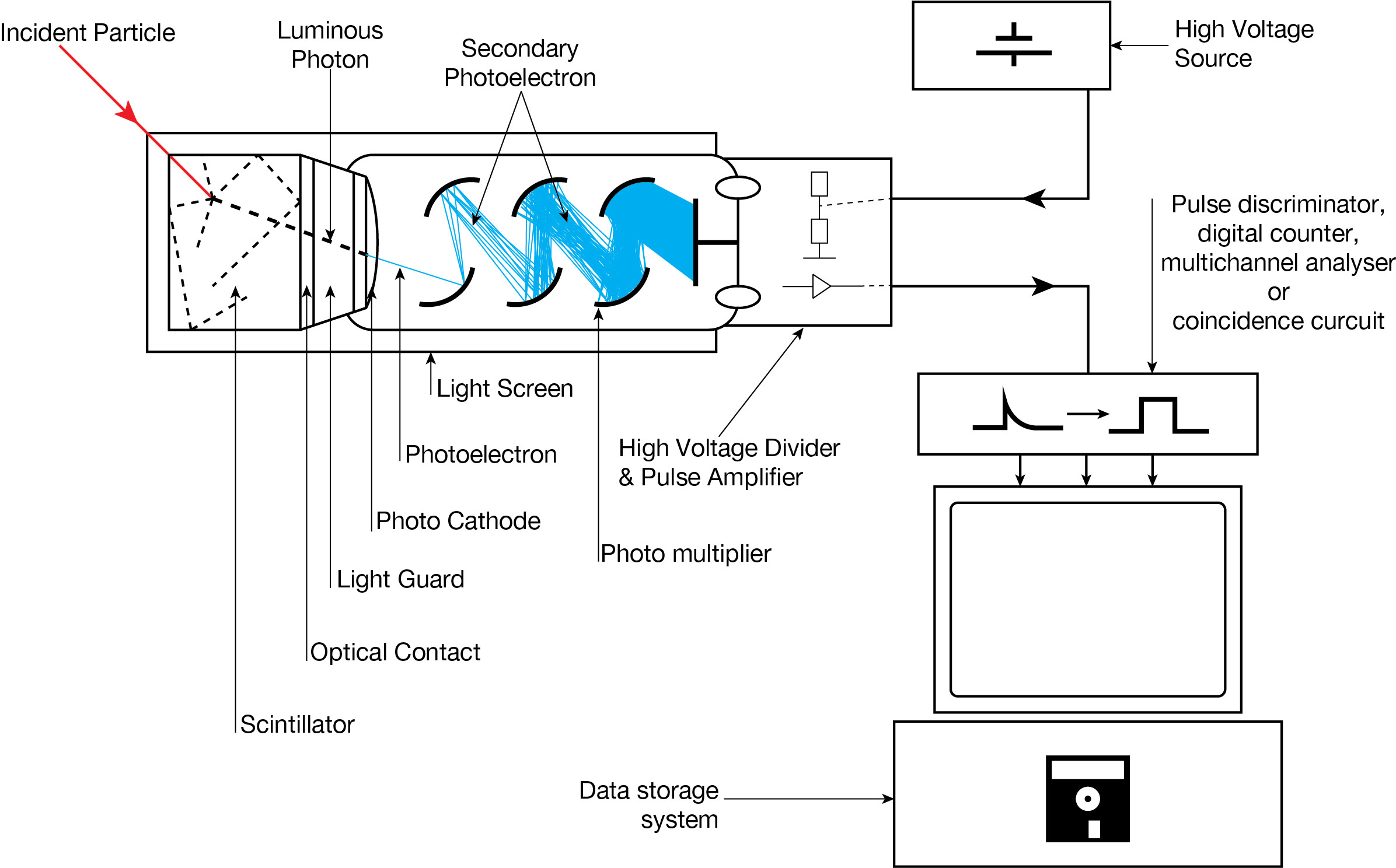 Schematic showing incident particles hitting a scintillating crystal, triggering the release of photons which are then converted into photoelectrons and multiplied in the photomultiplier.